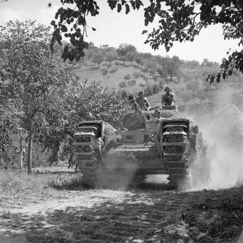 Canadian Army during the Italian Campaign of World War II. Churchill tank of 1st Canadian Armoured Division advancing towards the Gothic Line, 26 August 1944.